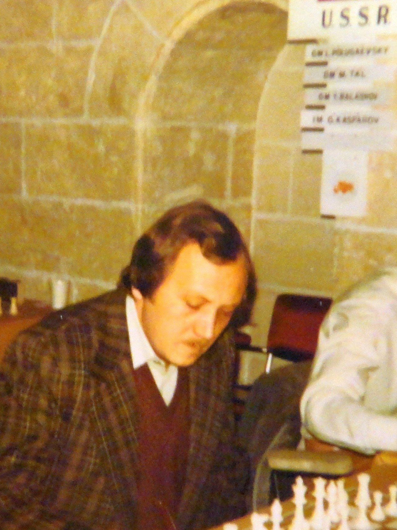 Yuri Balashov, Chess Olympiad 1980 at Valletta in Malta.